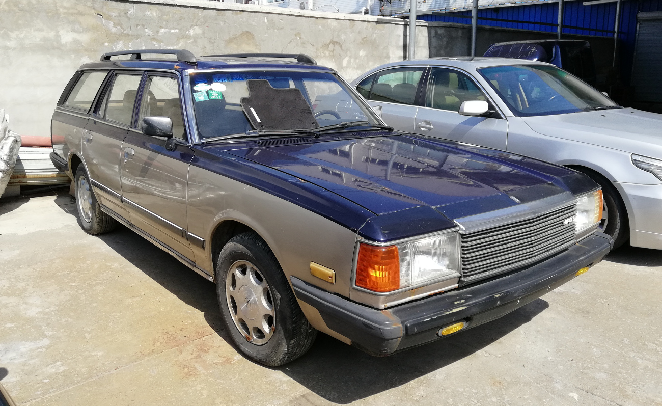 Hainan-Mazda HMC6470 photographed in Shanghai, China.